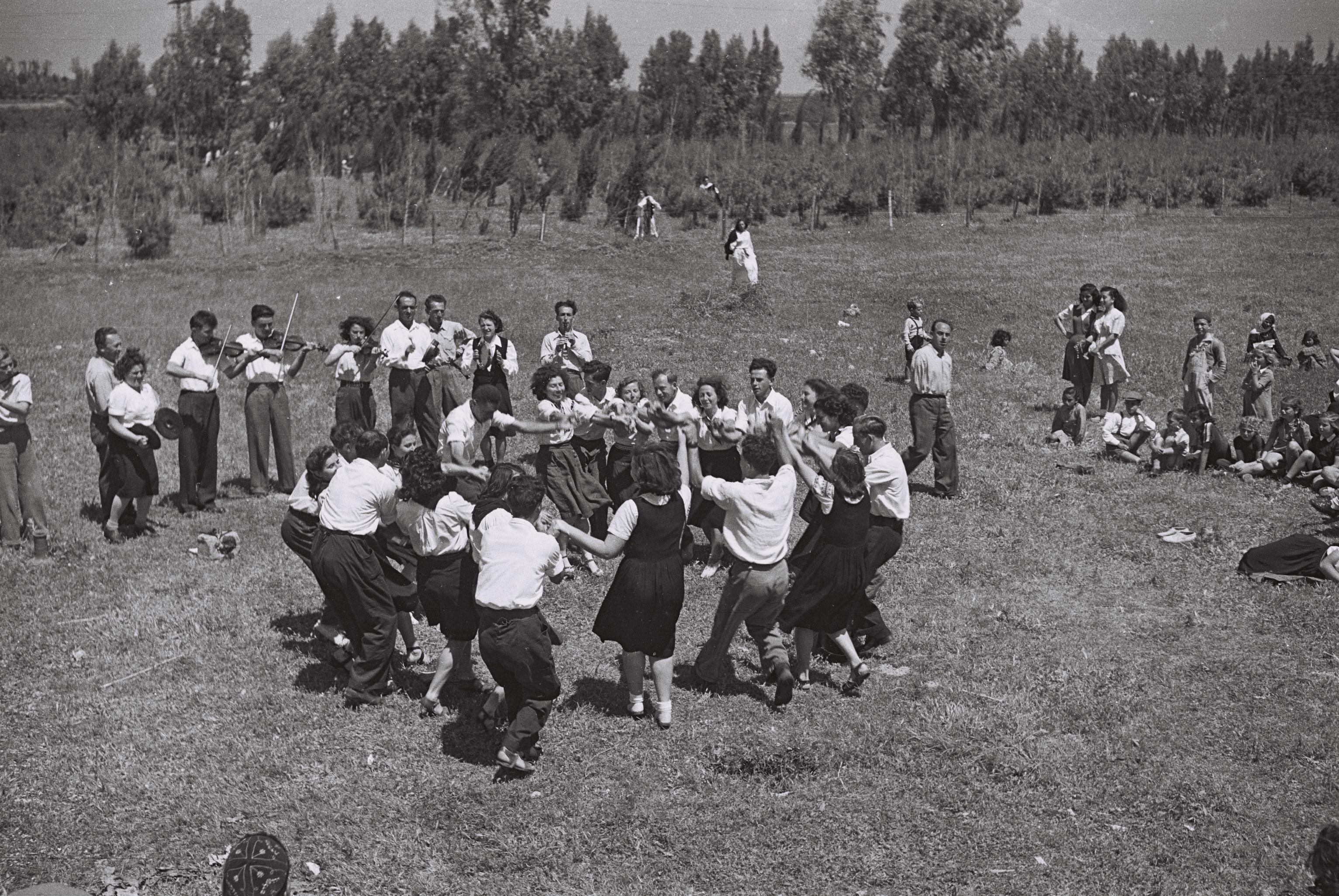 A FOLK DANCE TROUPE IN KIBBUTZ DALIA. להקת מחול מופיעה בקיבוץ דליה.